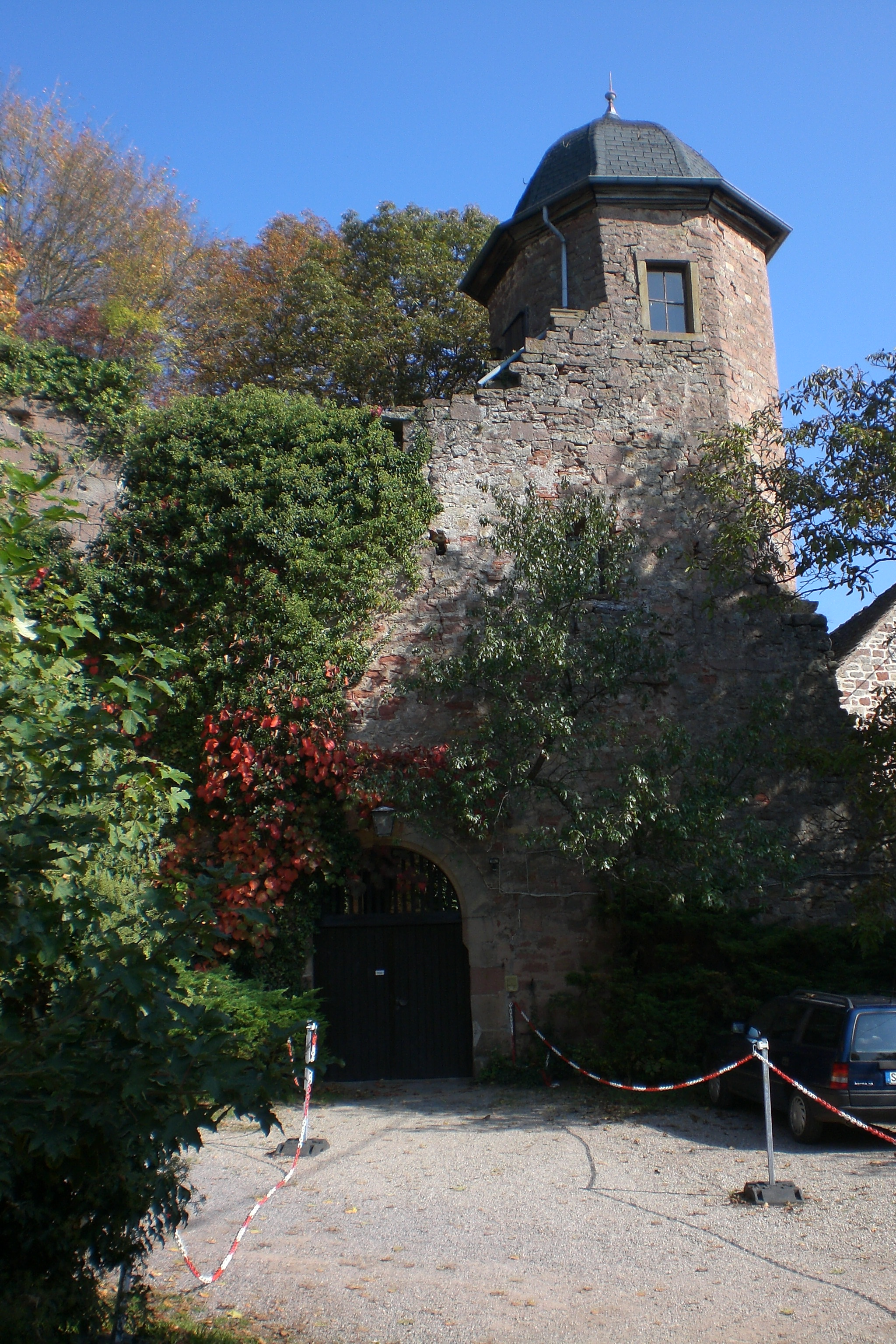 Inner gate of the Kropsburg